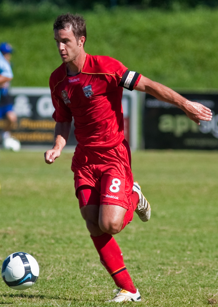 Matthew Mullen playing for the Adelaide United National Youth League team.